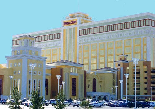 A photo taken by me of the Southcoast Casino and Hotel, Las Vegas Nevada.